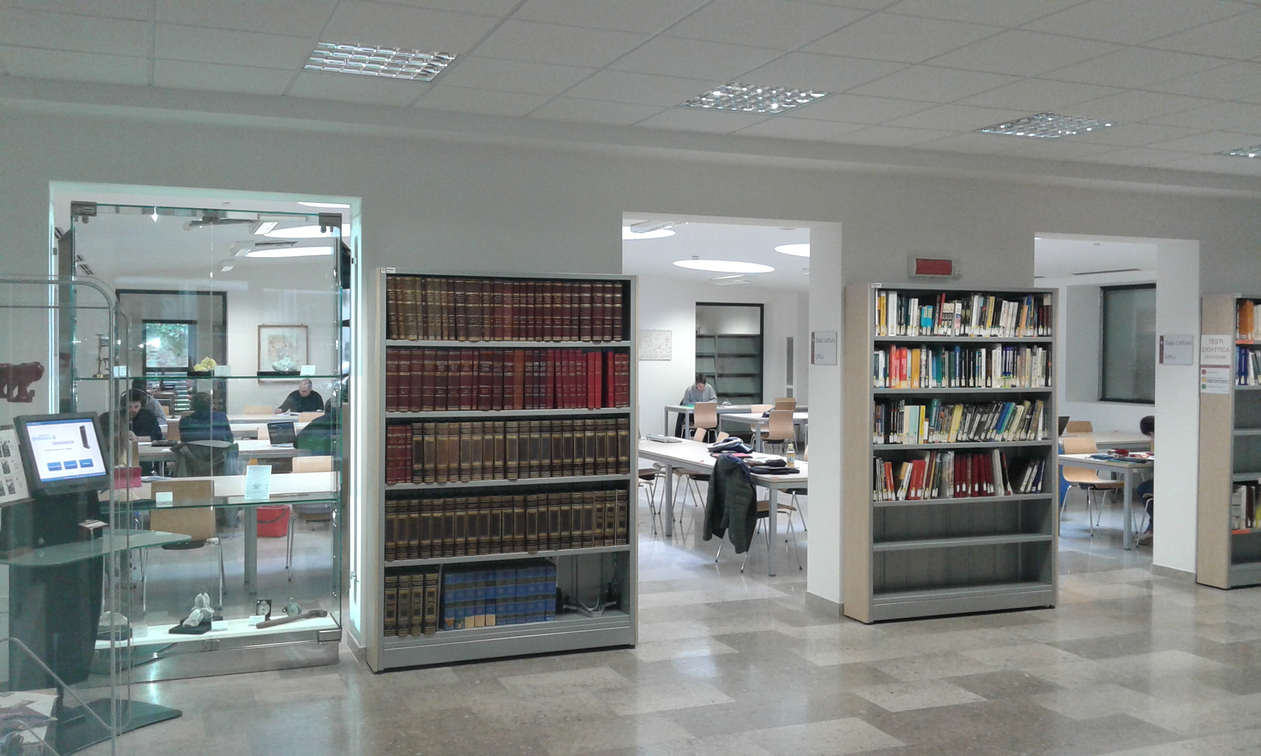 sala lettura biblioteca Geoscienze Padova